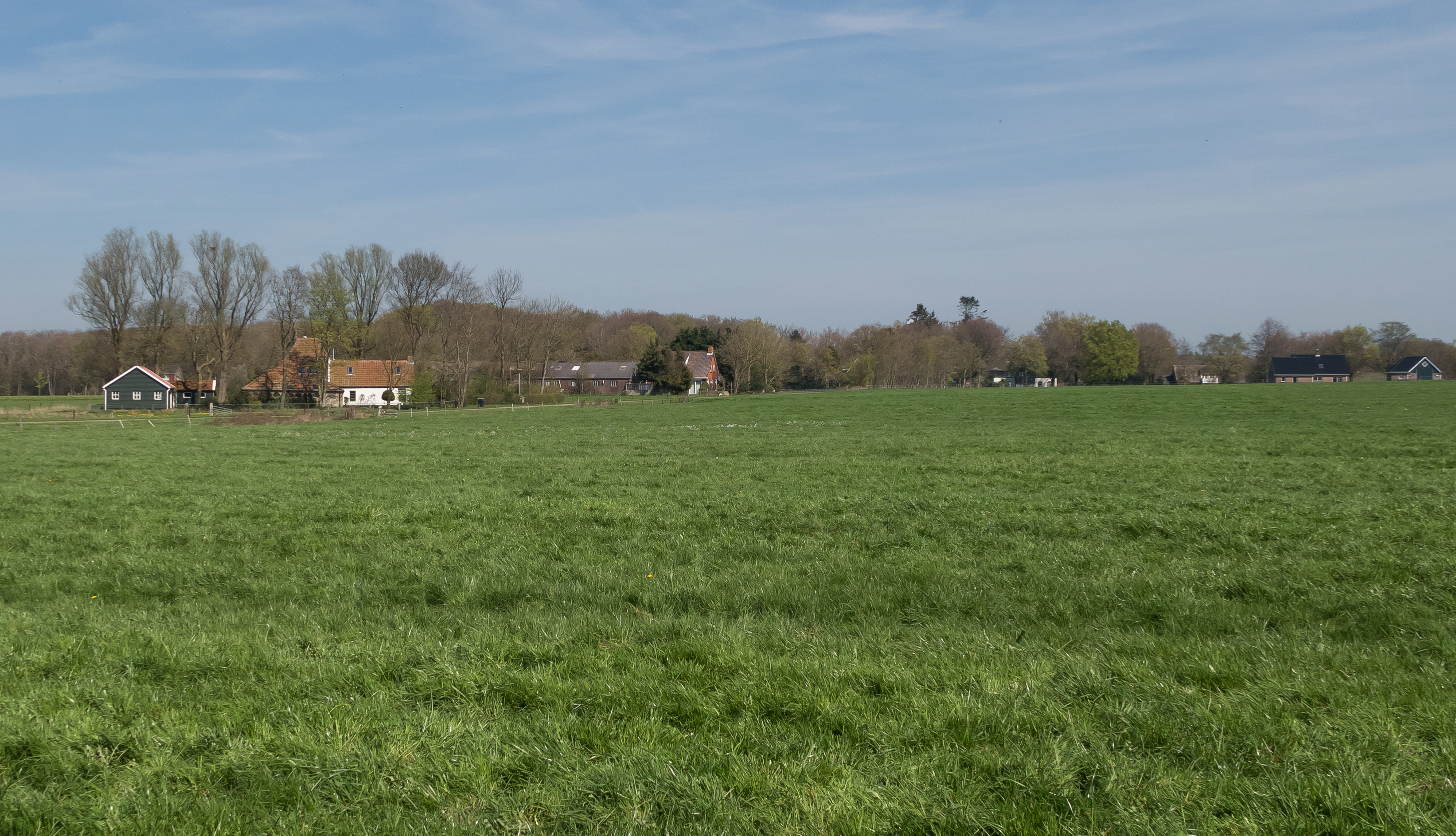 near Oudemirdum, panorama to the Gaasterrland hills